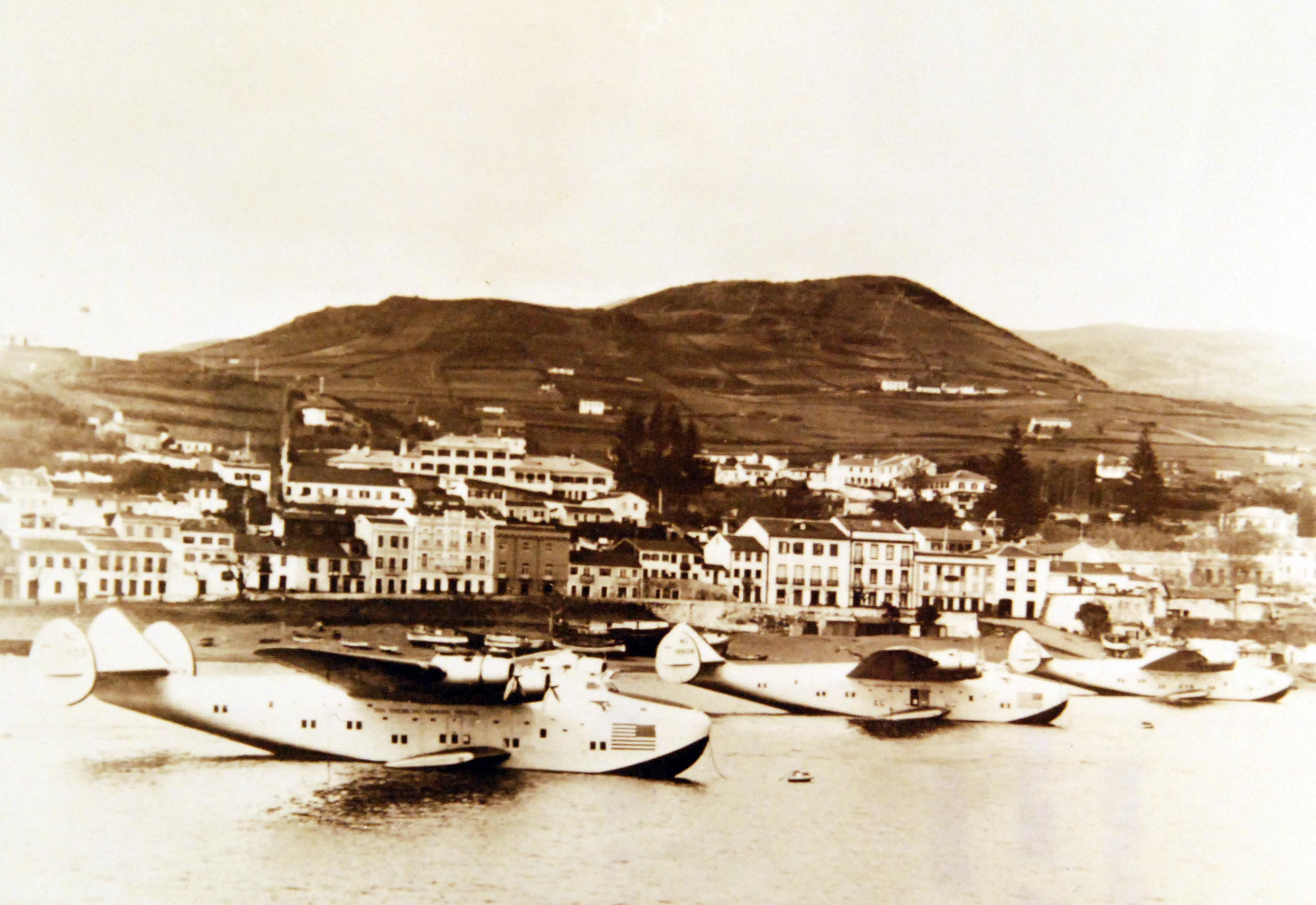 80-CF-Box-129-449885-1: Clippers shown at moorings in Horta harbor, Azores undated. Official U.S. Navy Photograph, now in the collections of the National Archives. (2017/05/16).